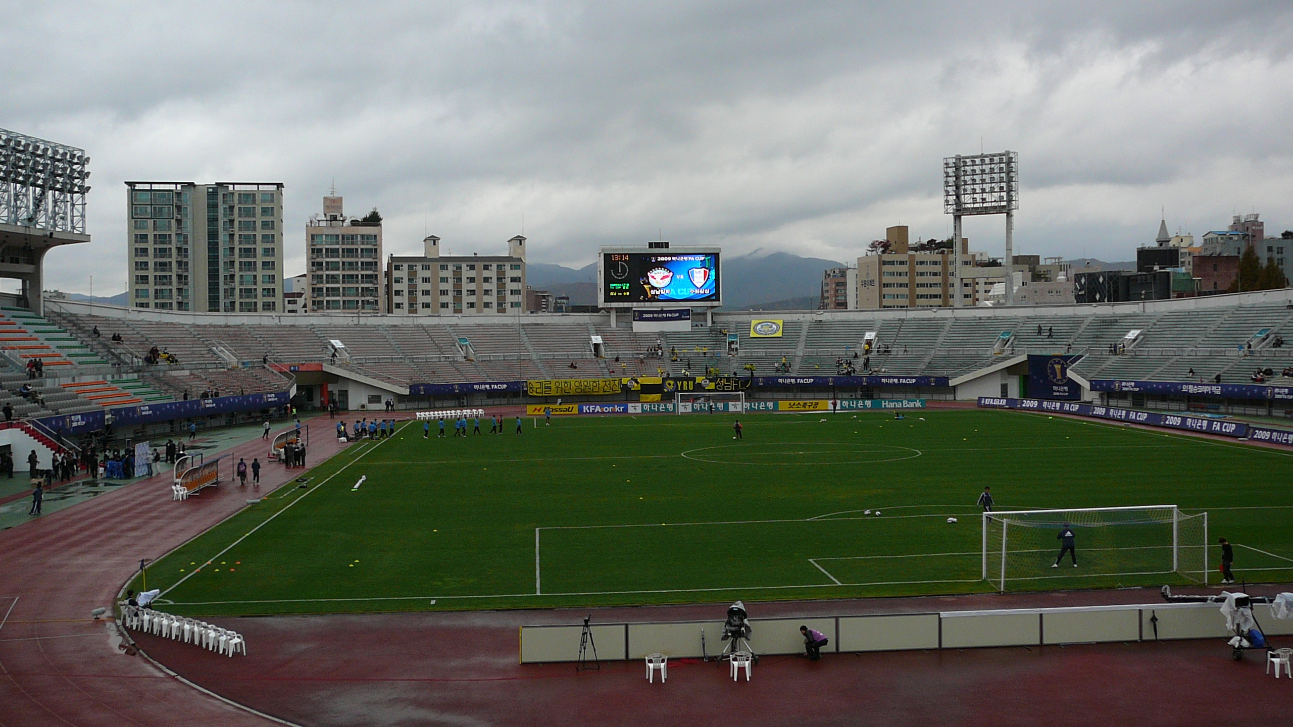 Seongnam Stadium, Korea FA Cup 2009 Final venue.